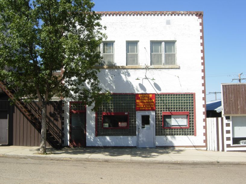 Photo by Victor L. Lee, September 2006. This is the photo of the restaurant called the Canadian Cafe from 1965 to 1998. Photo by Victor L. Lee, September 2006. This is the photo of the restaurant called the Canadian Cafe from 1965 to 1998.